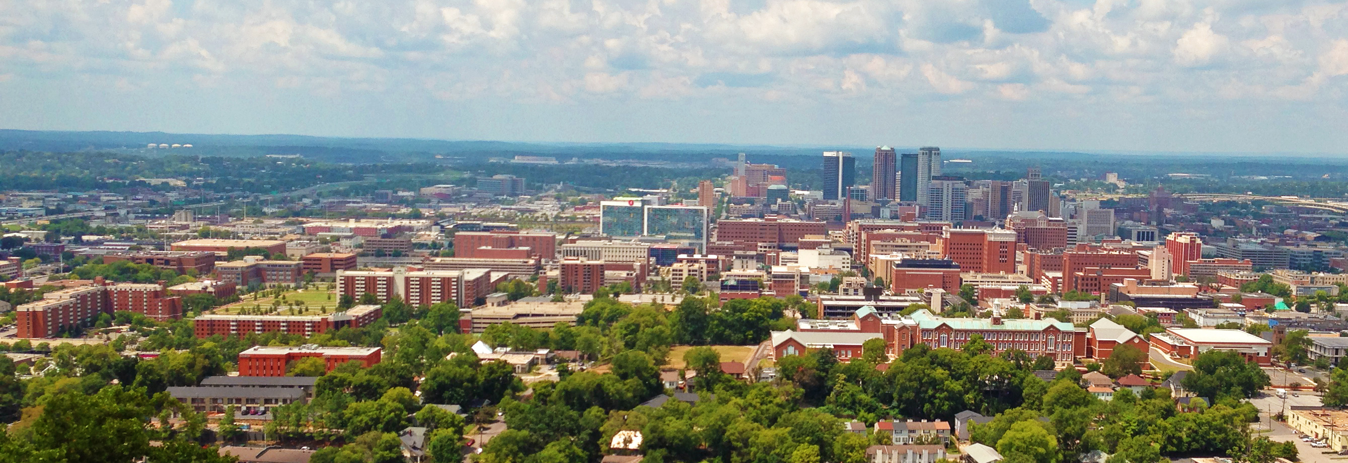 A view of Birmingham, especially UAB, from Vulcan Park.